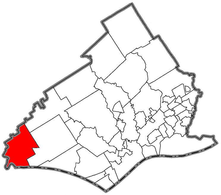 Showing the location within Delaware County, Pennsylvania.